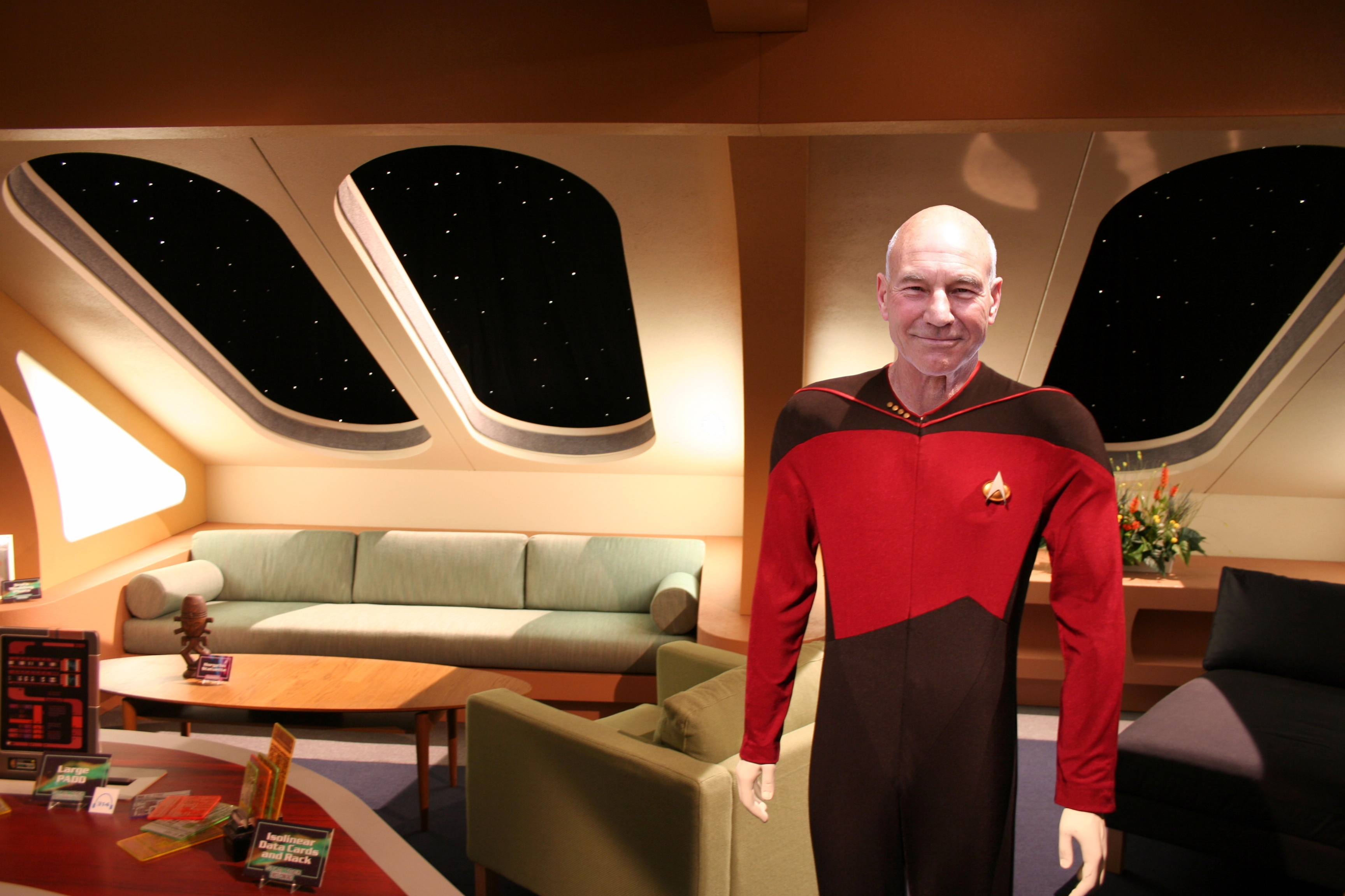 A derivative collage from two other files - captain Jean-Luc Picard in his quarter on the USS Enterprise-D